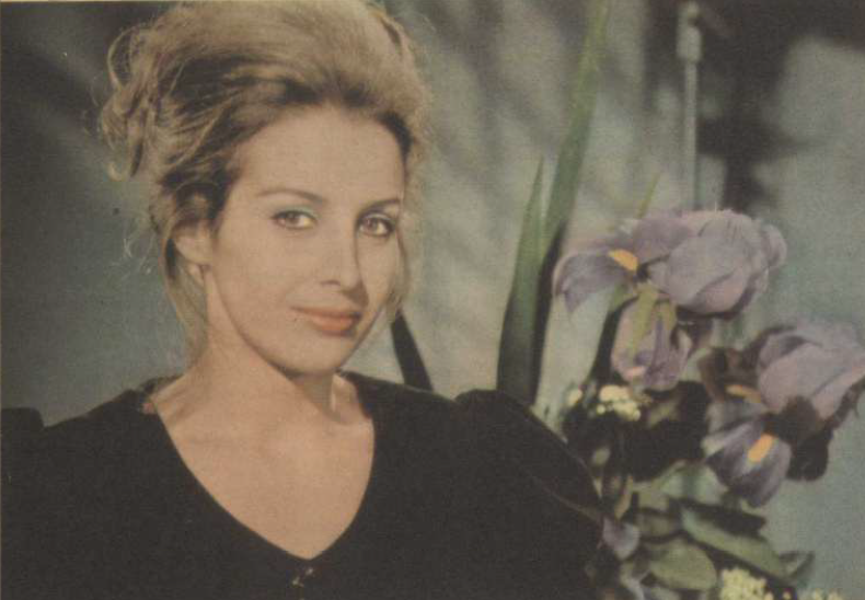 Zhaleh Kazemi - 1971